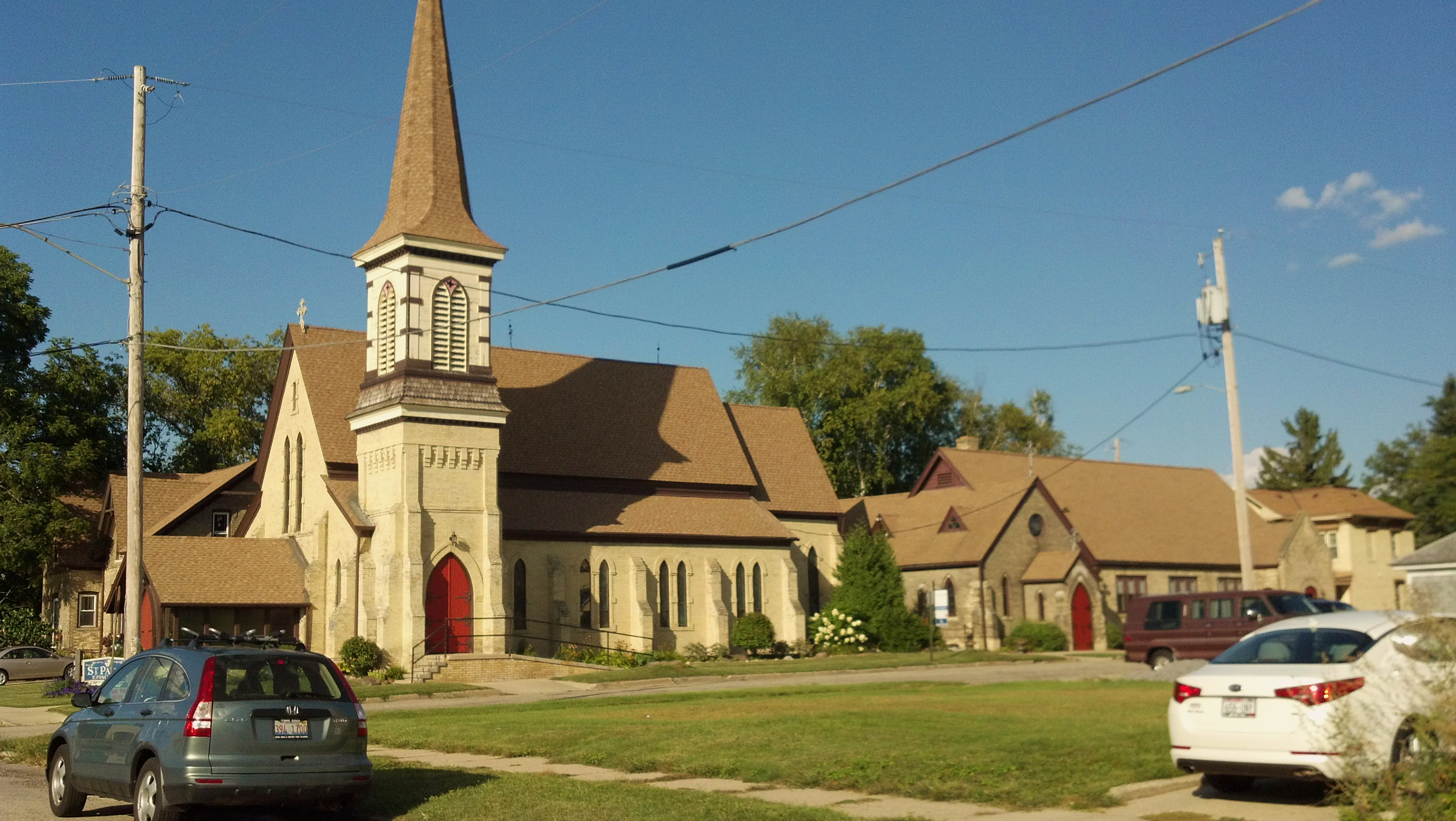 St. Paul's Episcopal Church